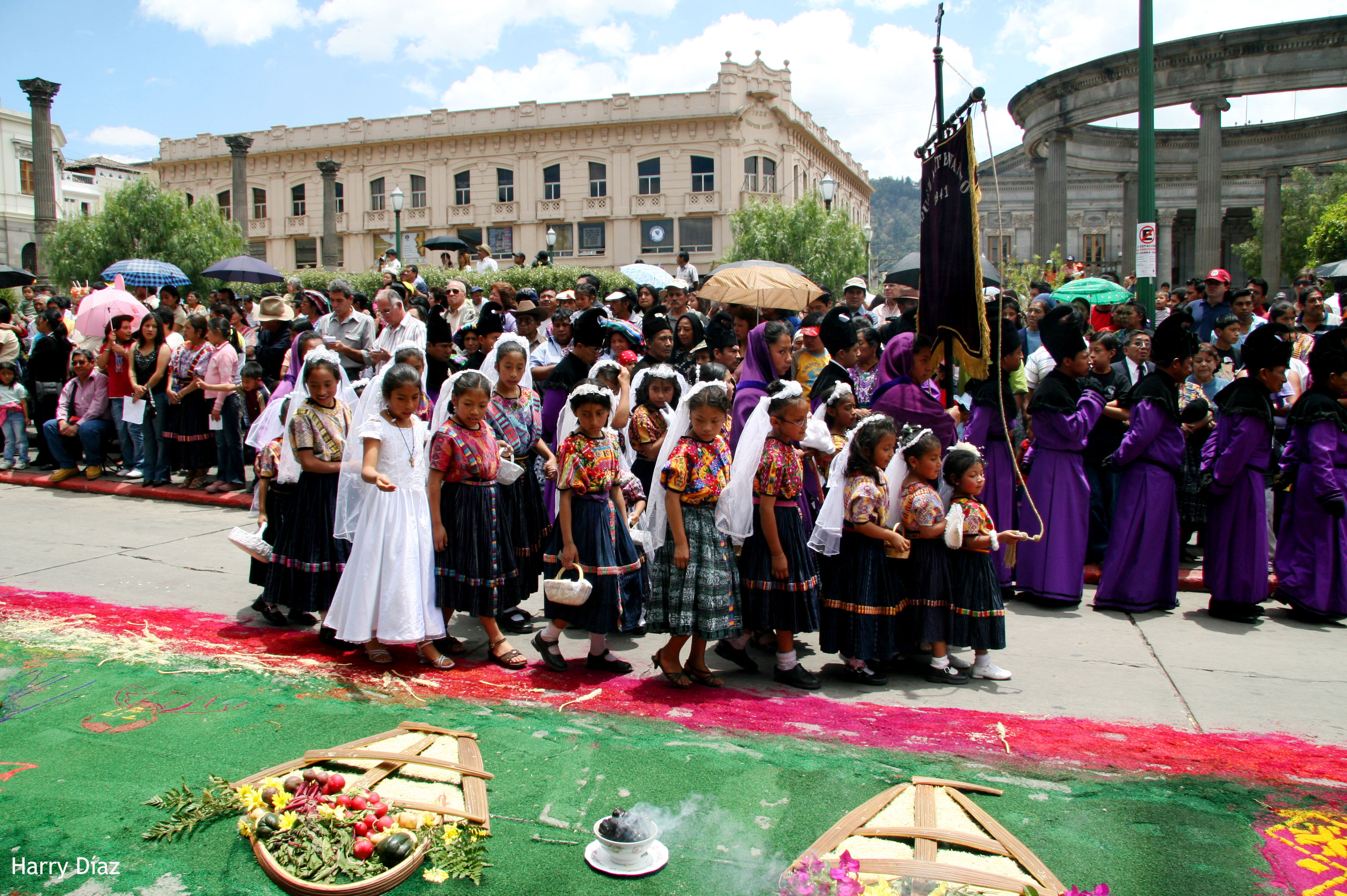 Holy Friday in Quetzaltenango, Guatemala, 2007. Procession honoring Jesus of Nazereth in traditional clothing heading to the Cathedral. In foreground temporary street carpeting; the city's neoclassical architecture in the background.